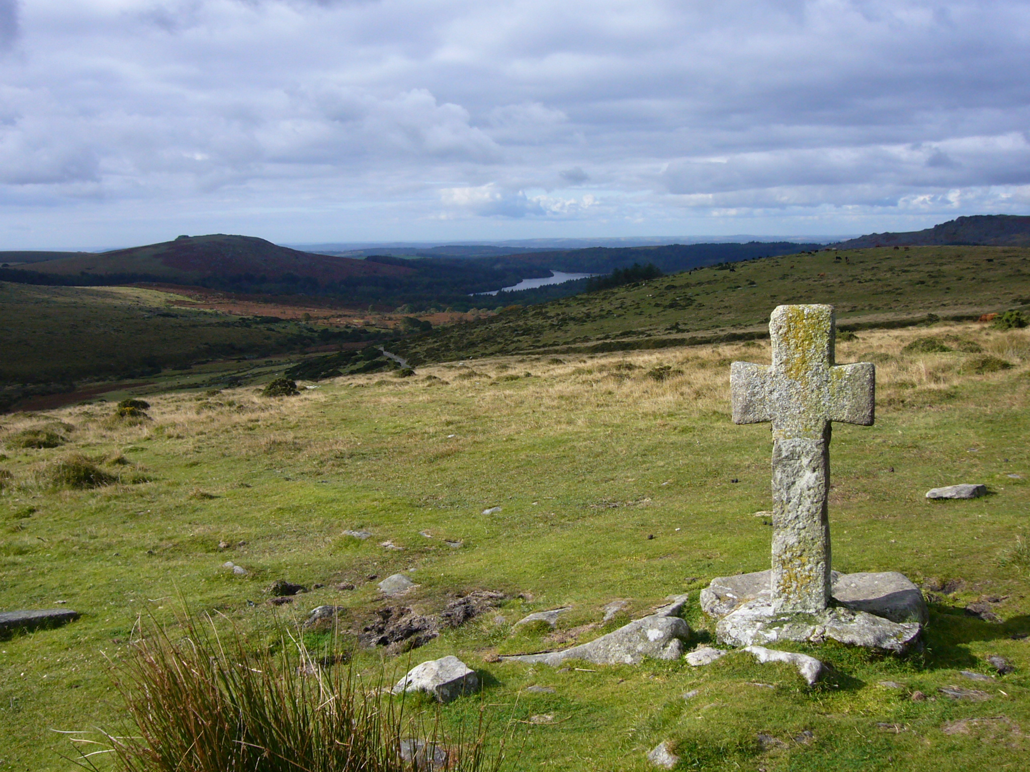 Ancient cross close to Crazywell Pool on southern Dartmoor. It may well have been used as a marker for the track from the monastery at Buckfast to the monastery at Tavistock. Burrator reservoir can be seen in the distance.